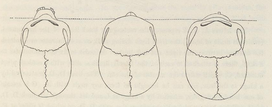 A picture of a 1839 book purporting to show typical Negroid, Caucasoid, and Mongoloid skulls